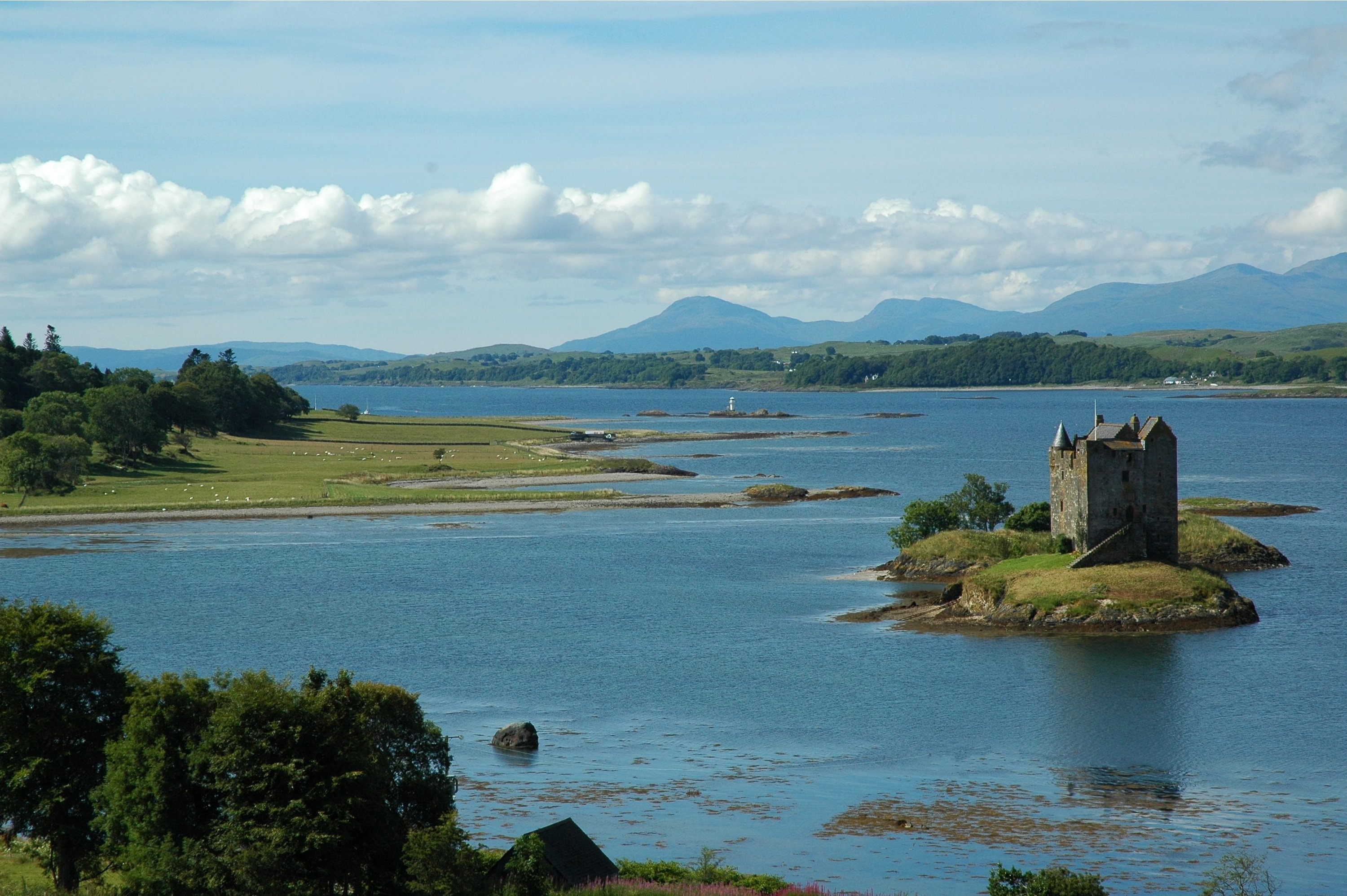 Photographer - Alan M Hughes